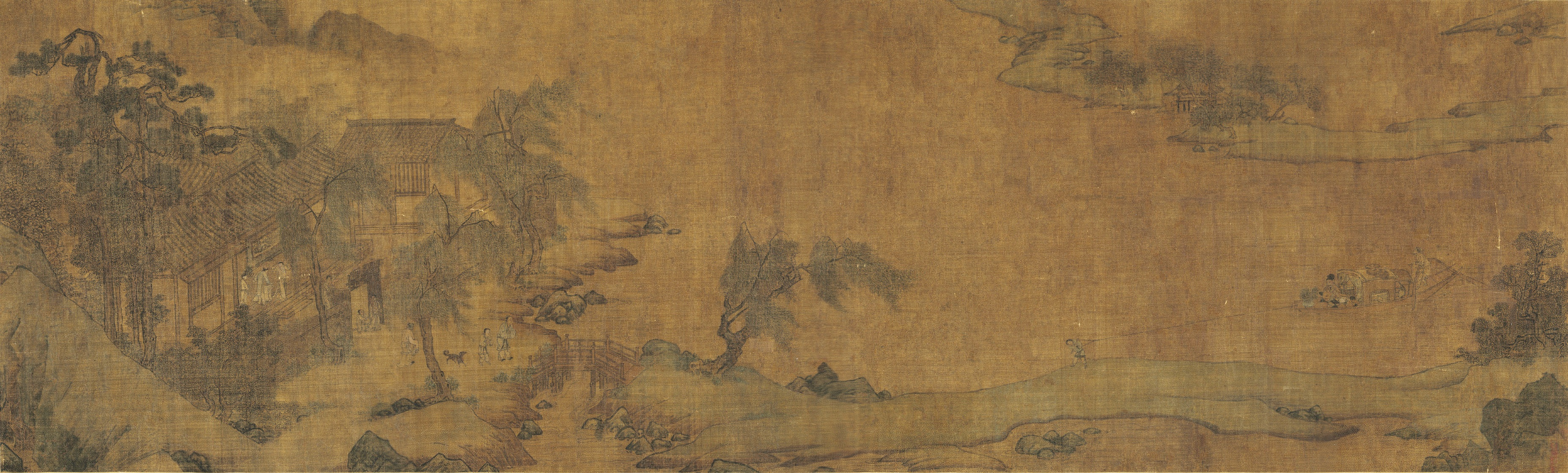 Returning_Home.Yuan_or_Ming_copy._National_mus._Taipei